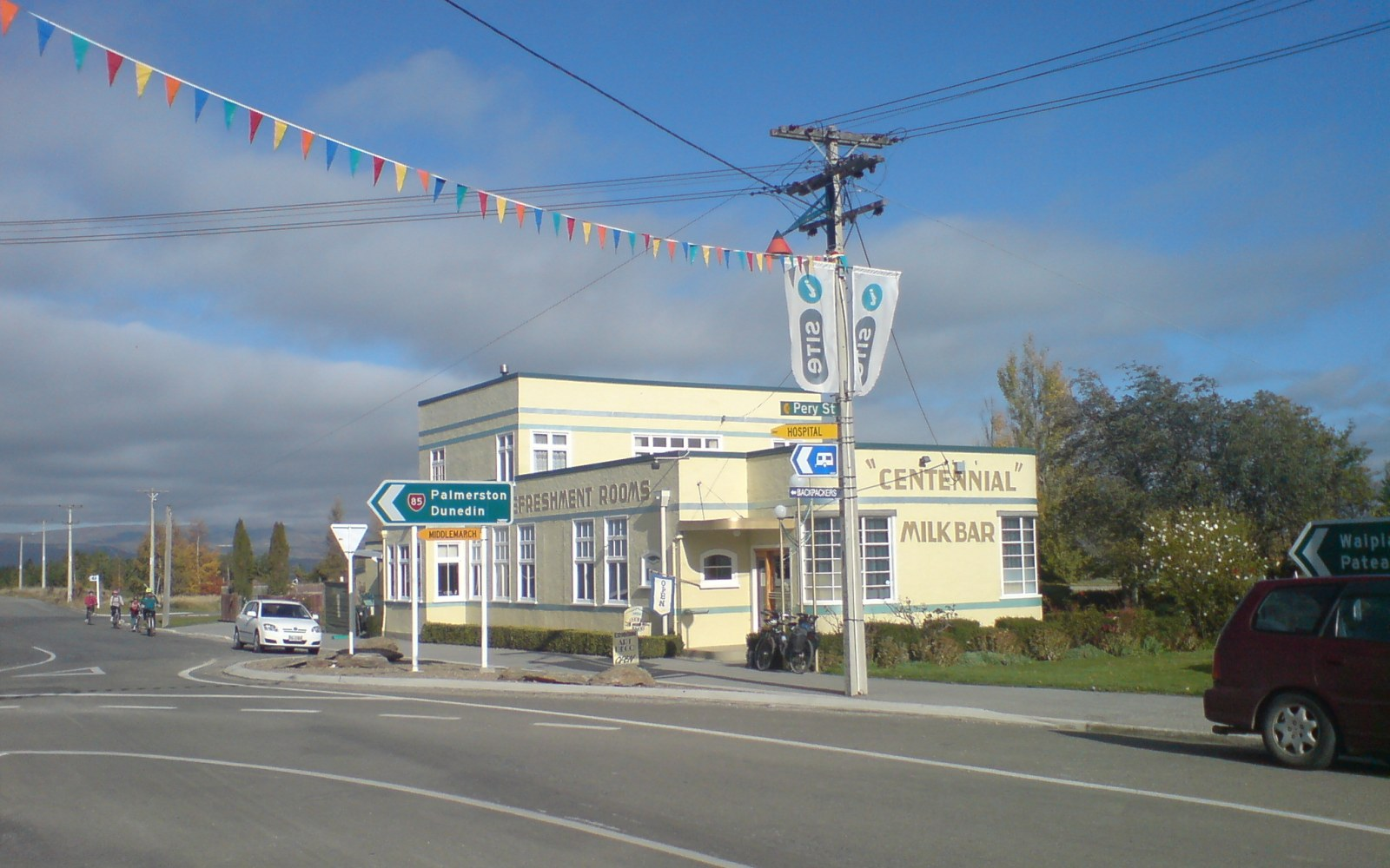 The Centenniel Milkbar in Ranfurly, New Zealand. Now a museum.